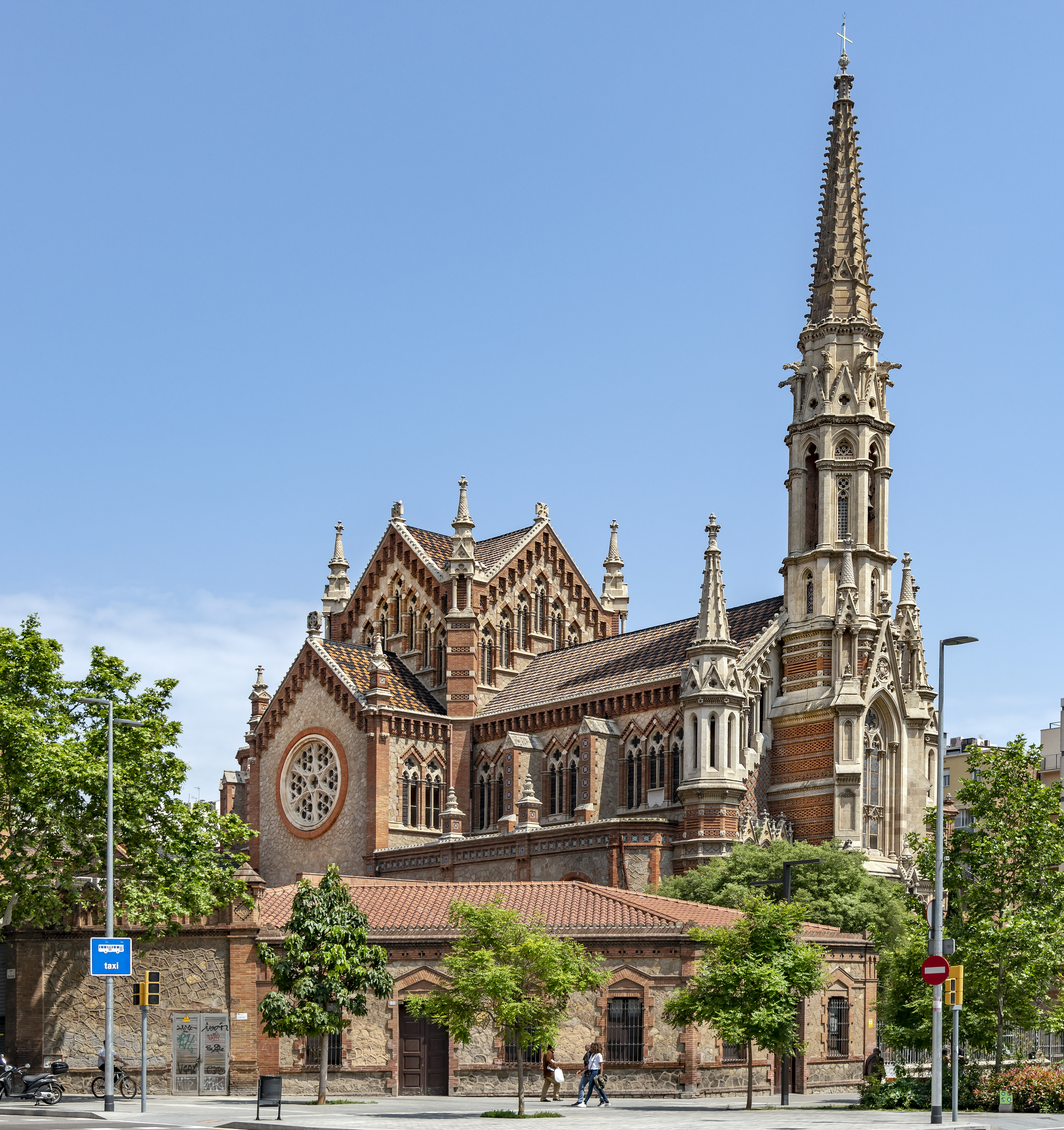 Parish Church of San Francisco de Sales, an old church and convent of the Sales of the Order of Visitation, a romantic medievalist work by Joan Martorell i Montells (1882-85), located at number 88-92 of the Paseo de San Juan, at Barcelona, adjacent to the current Marist school.